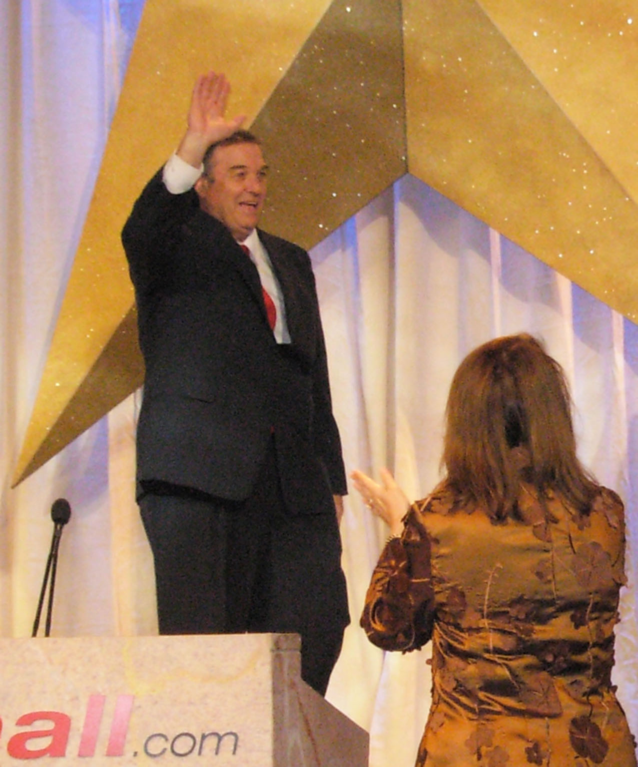 Rep. Duncan Hunter waves to the delegates and Republican Party of Texas Chairman Tina Benkiser (with back turned) at the Texas Presidential Straw Poll Sept. 1, 2007. Hunter carried the delegation with 41 percent of the vote and won the poll.